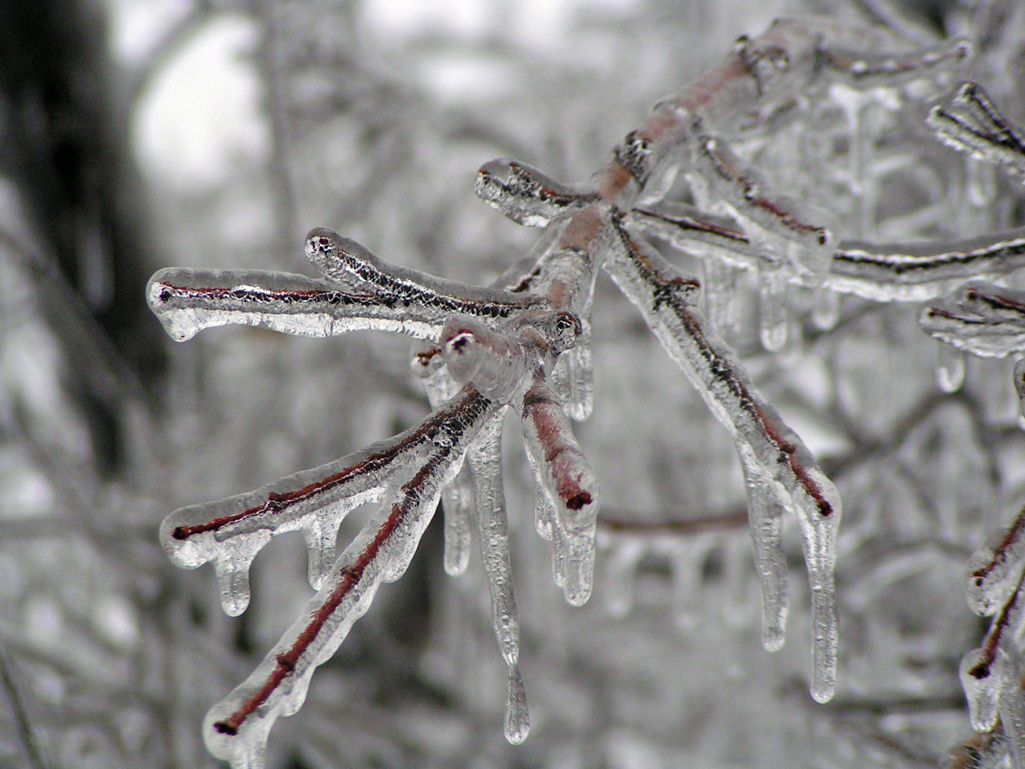 ice glaze on a tree in Kasas during the 2007 Ice Storm